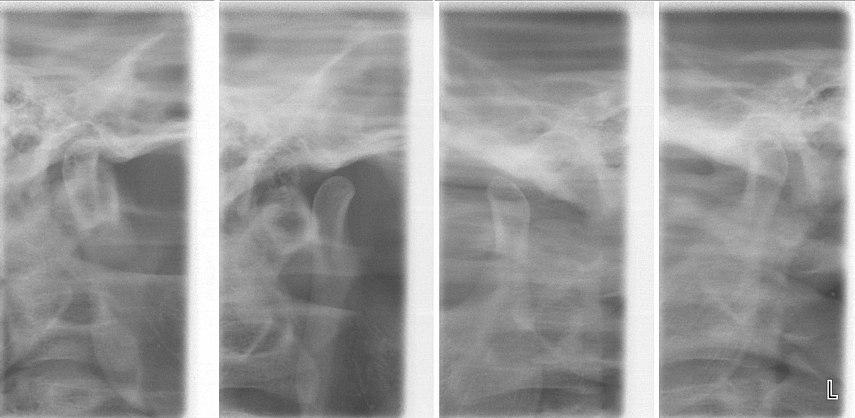 X-ray image showing articular fossa and condyle.